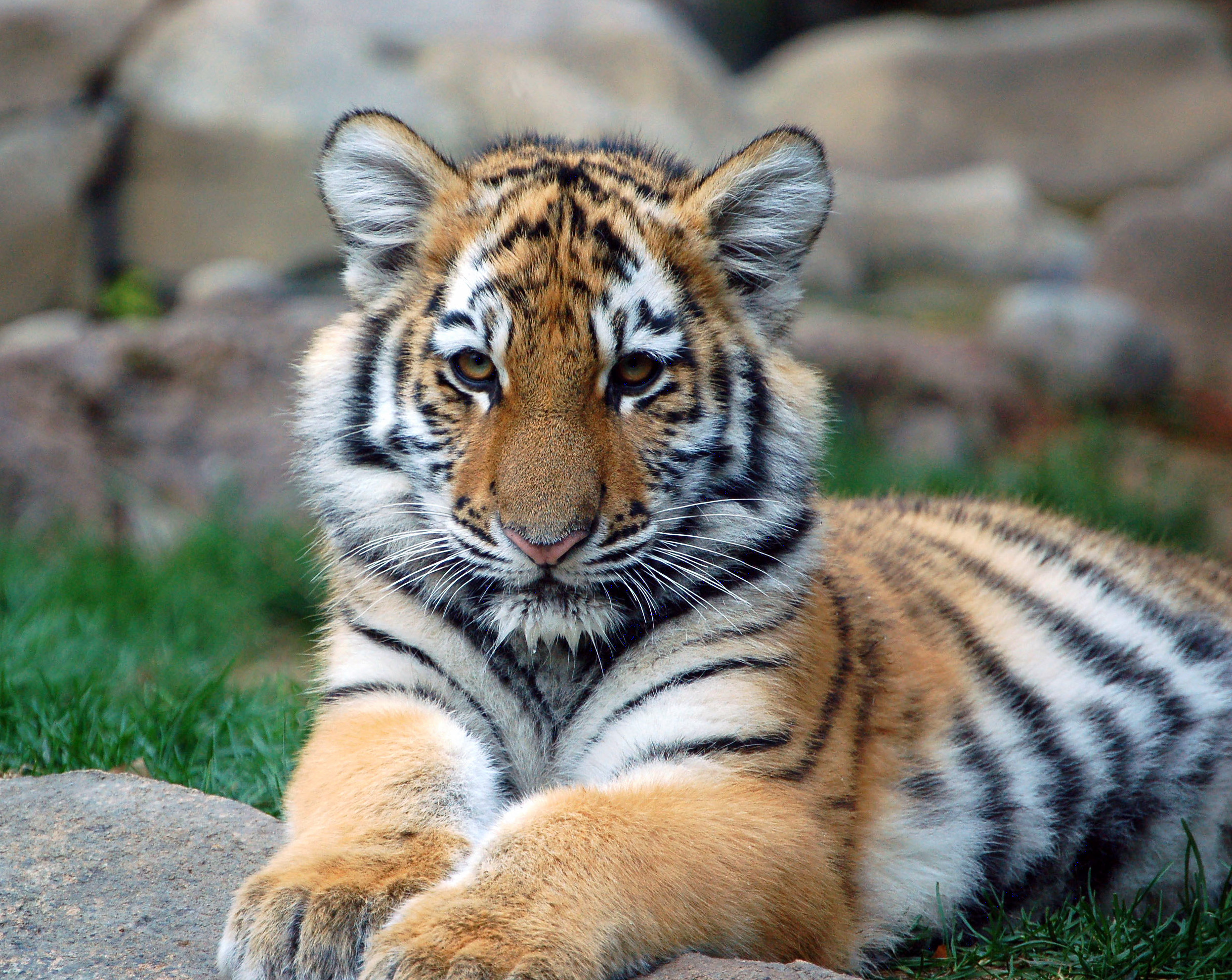 One of three tiger cubs born at Phila. Zoo. They are approximately 5 months old.